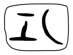 Drawing of the parietal plicae of Halongella schlumbergeri (Morlet, 1886), synonym: Plectopylis hirsuta Möllendorff, 1901. It is holotype of Plectopylis hirsuta Möllendorff, 1901 (after Gude 1901).